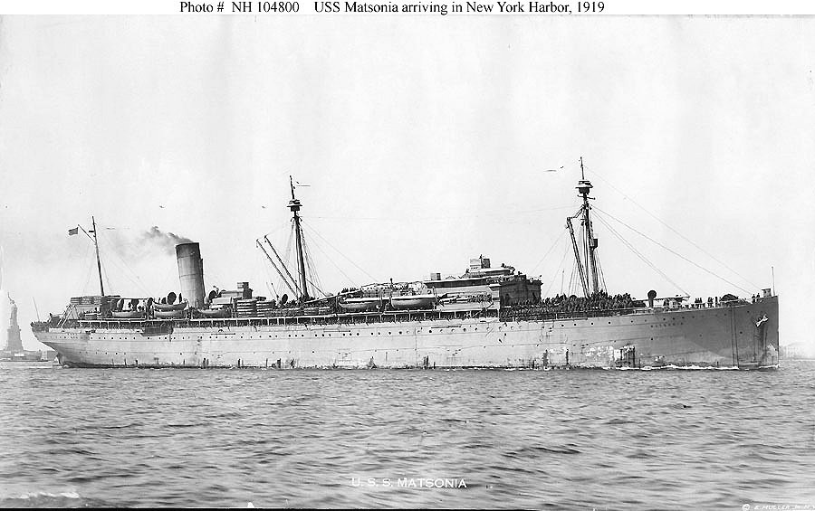 Arriving in New York Harbor at the end of a voyage from Europe, 1919 with troops crowding her deck. The Statue of Liberty is in the left distance.